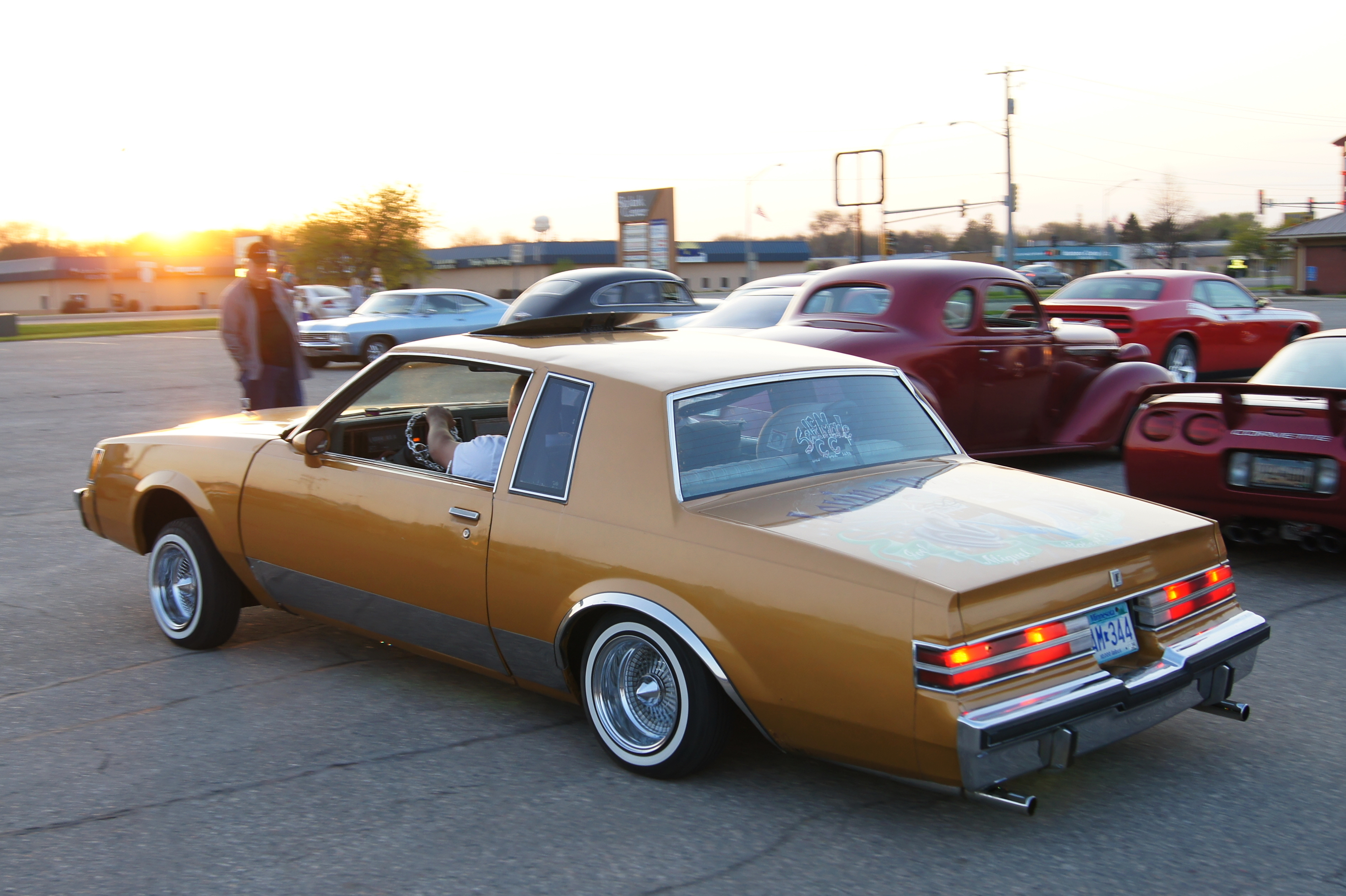 Willmar Car Club & A&W Country Stop Cruise Night May 17, 2014 Great weather and a great band, provided by the A&W Country Stop in New London, led to high levels of enjoyment for the large crowd that attended. For more pictures click on the link below